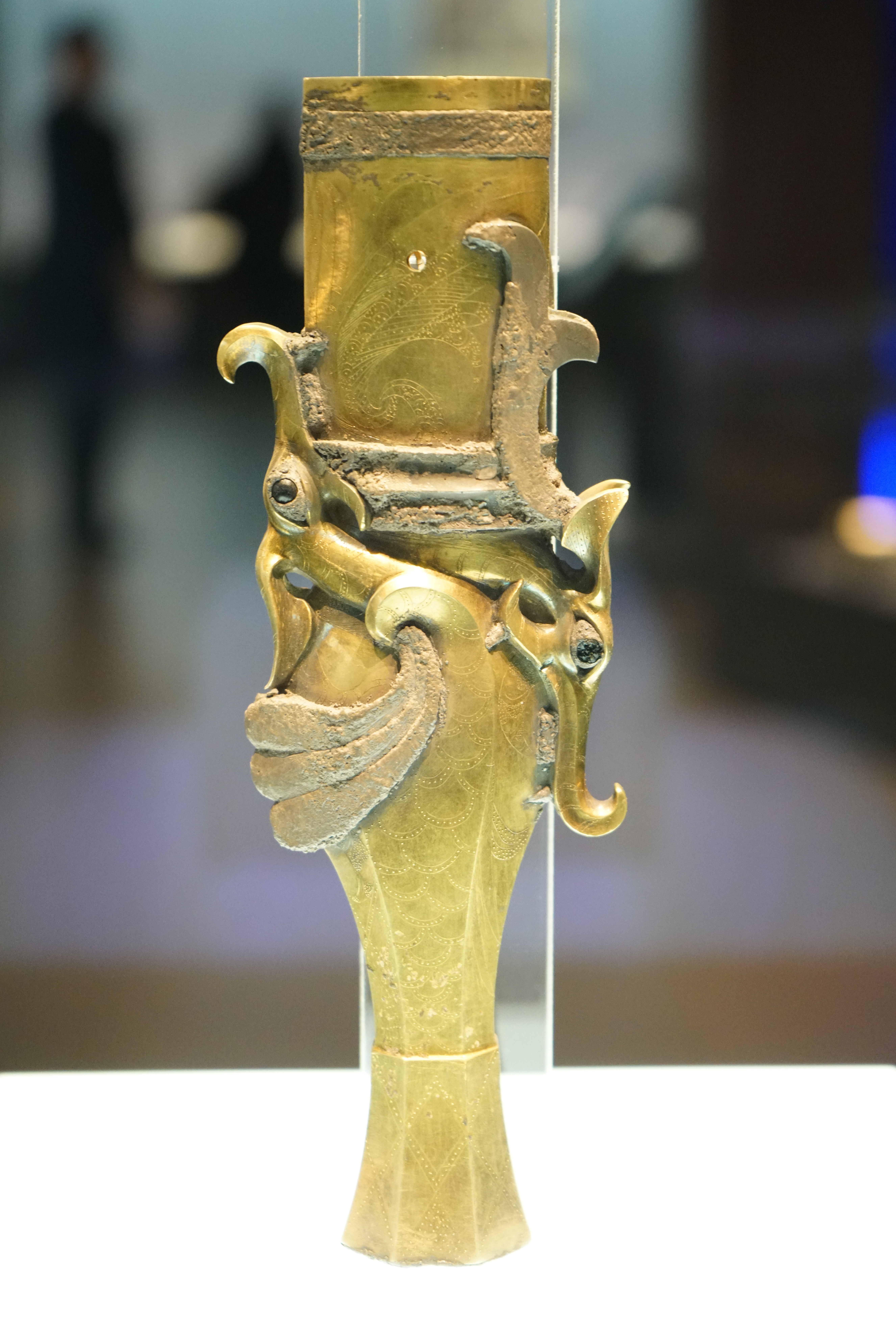 Gold Zun Ferrule of the Bronze Dagger. 中山王cuo墓出土